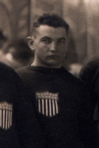 American ice hockey player Cyril Weidenborner representing the US national ice hockey team at the 1920 Summer Olympics in Antwerp, Belgium. The picture is a crop out of a larger team photo taken inside the ice rink Palais de Glace d'Anvers. The ice hockey tournament at the 1920 Summer Olympics took place between April 23 and April 29. The american team won silver medals at the games.